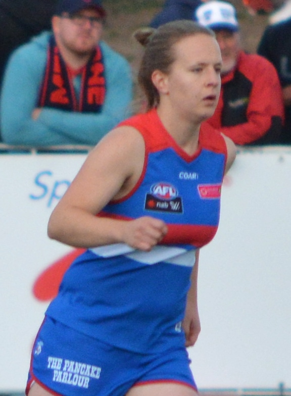 Hayley Wildes during the round 3, 2017 AFL Women's match between the Western Bulldogs and Melbourne.